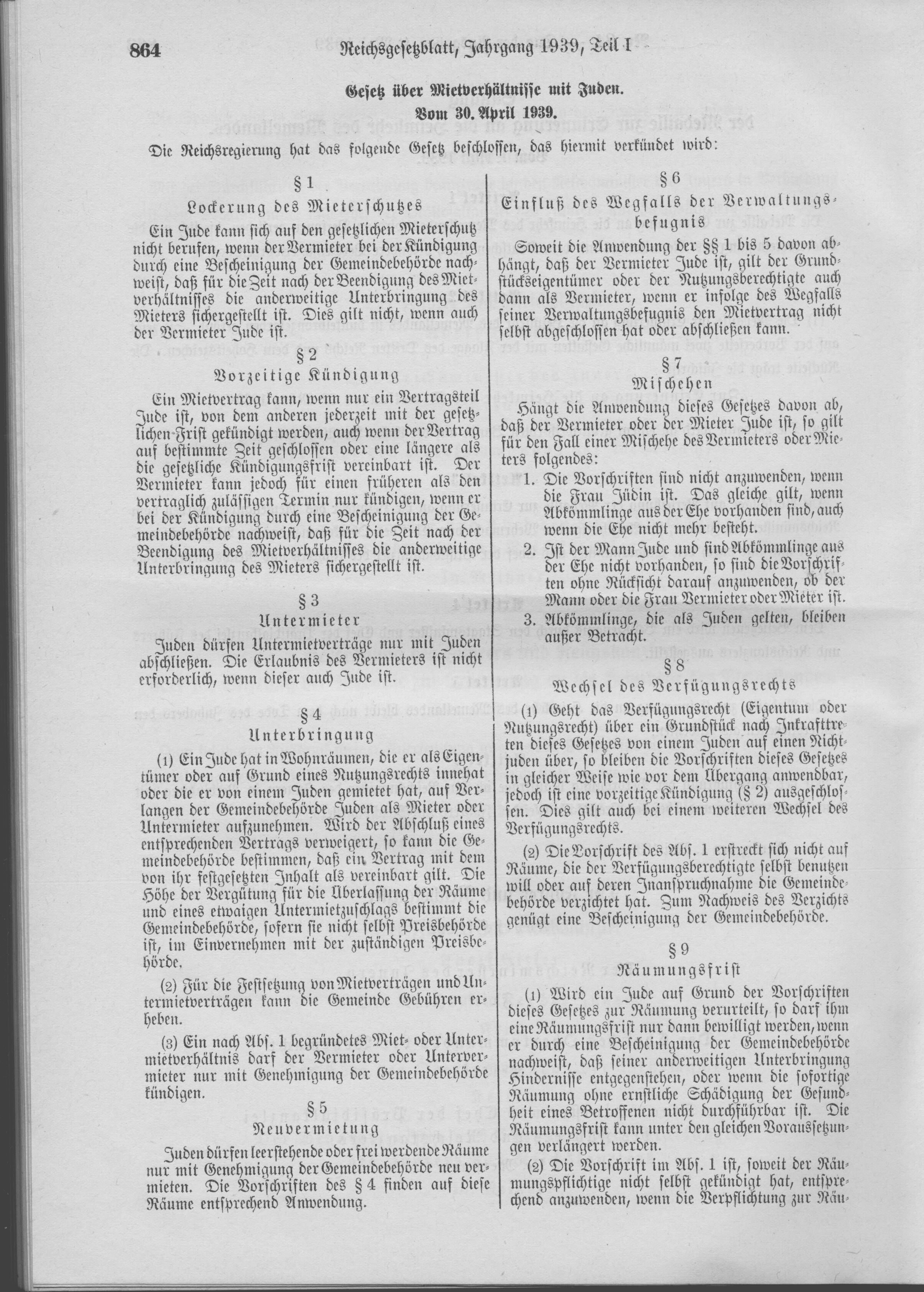 Scan from the Imperial Law Gazette of Germany, 1939, part 1